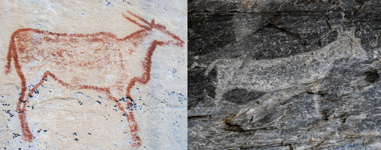 Tsodilo rock art showing an eland in the red and the white painting.